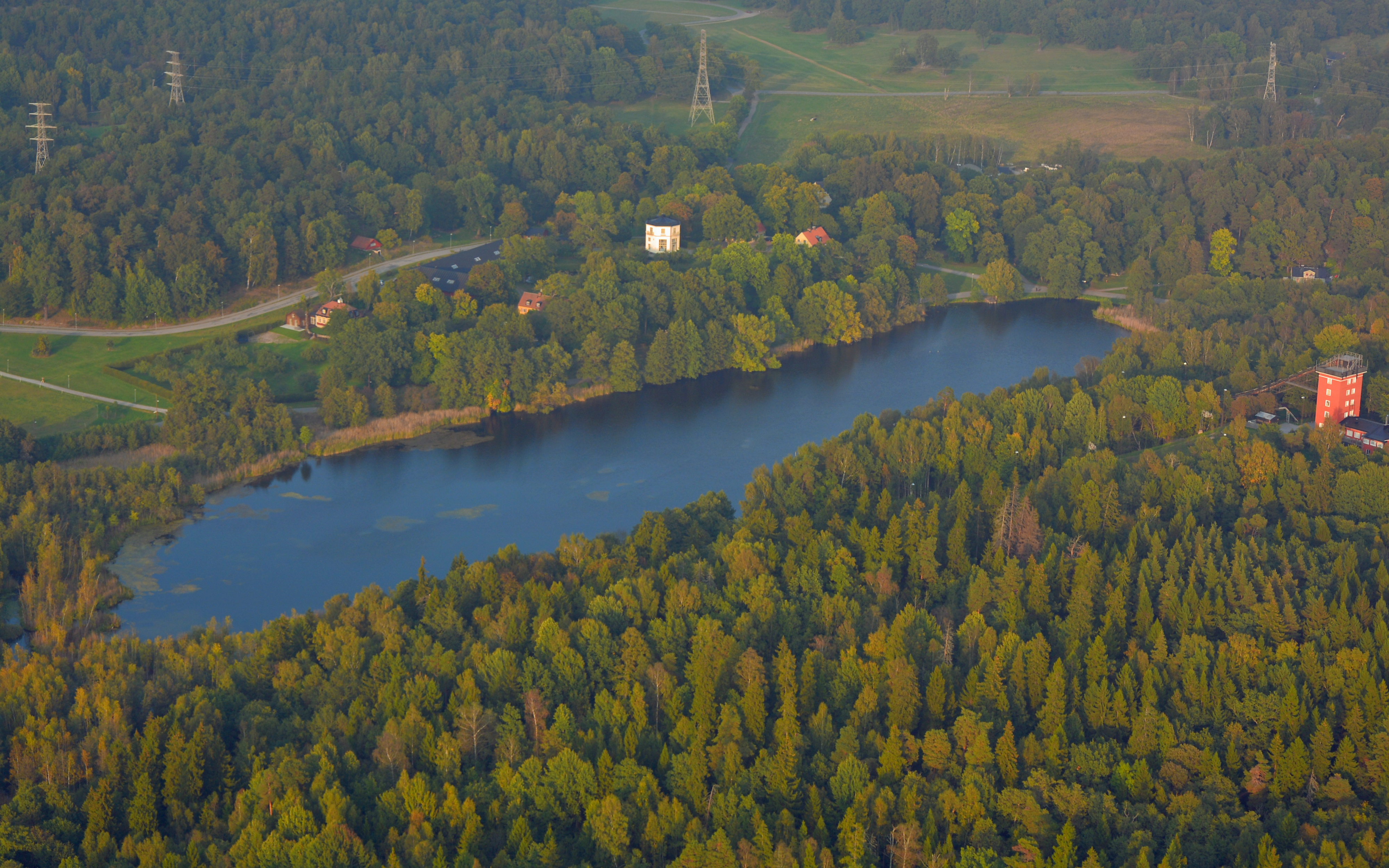 Laduviken on Norra Djurgården in Stockholm, Sweden.